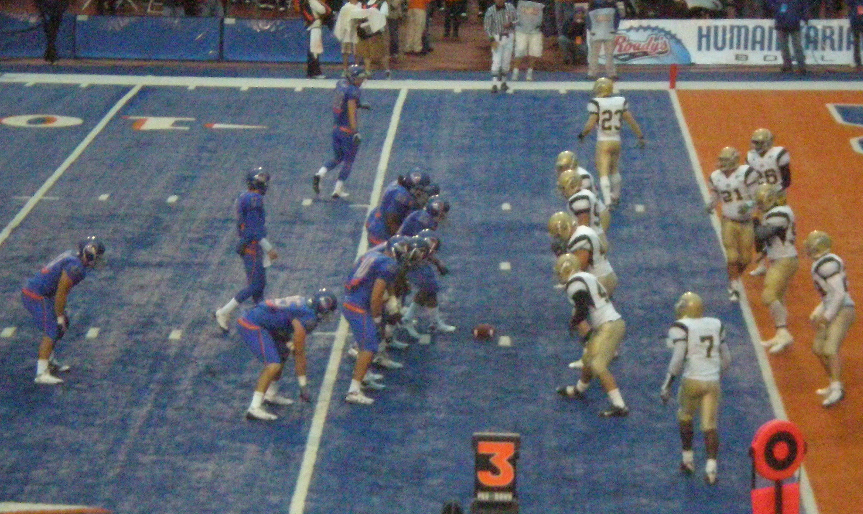 Boise State offense vs UC Davis defense at Bronco Stadium in Boise Idaho